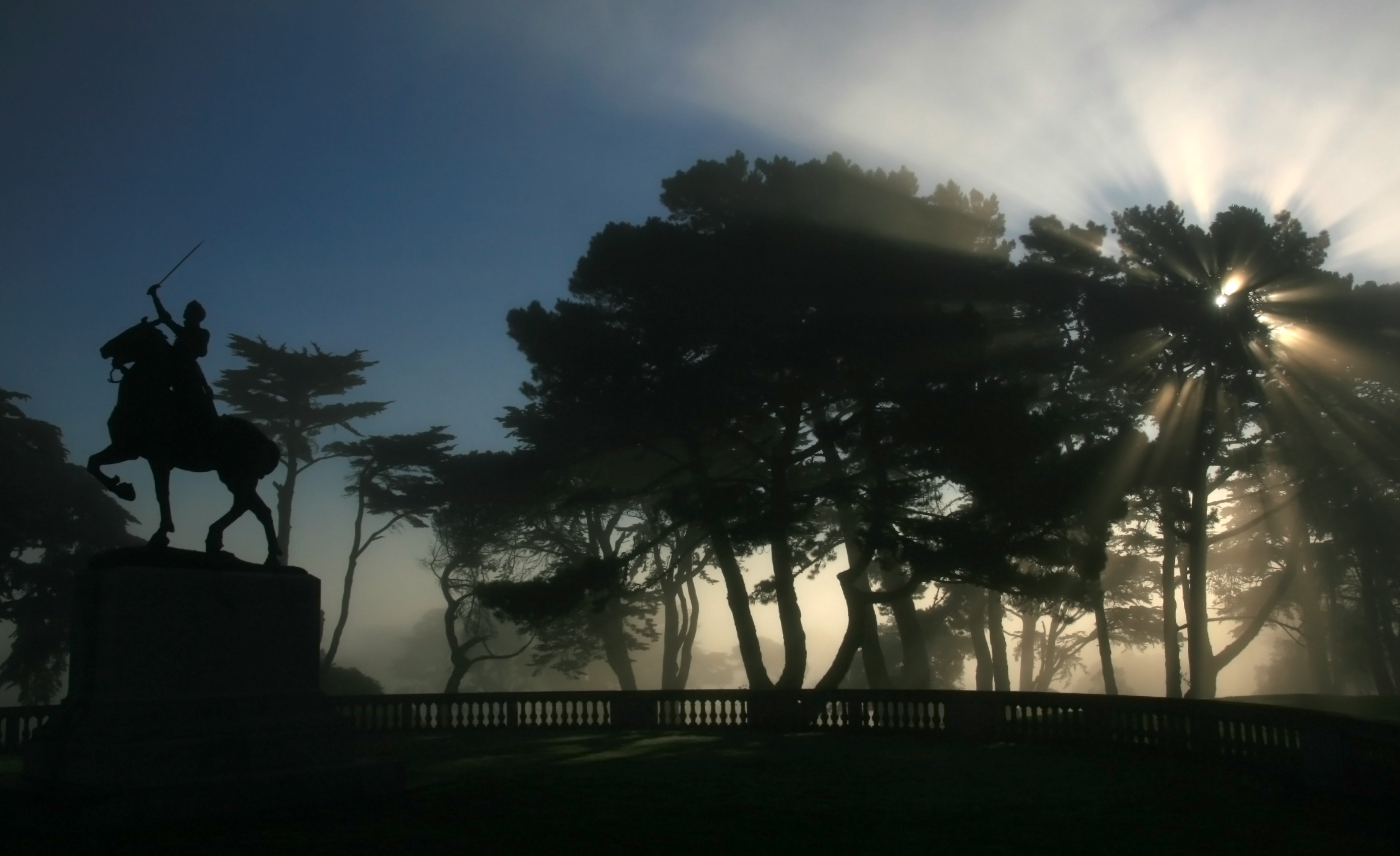 Joan of Arc on horseback, triumphantly raising her sword to the heavens and crepuscular rays at San Francisco's Palace of the Legion of Honor